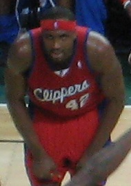 Elton Brand in 2007 with the Clippers, cropped from